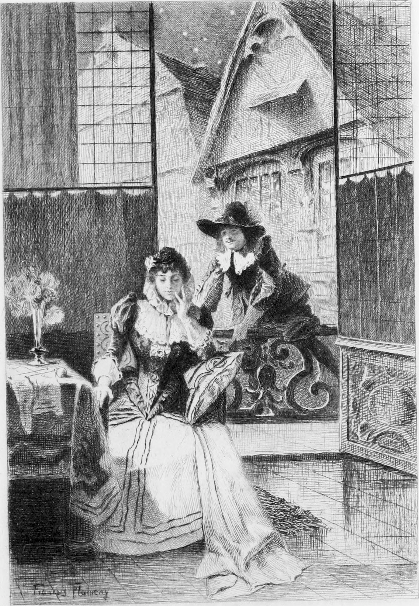 Illustration inserted between pages 104 and 105 of Victor Hugo's Works, volume 14, Guernsey Edition, published by Estes and Lauriat.